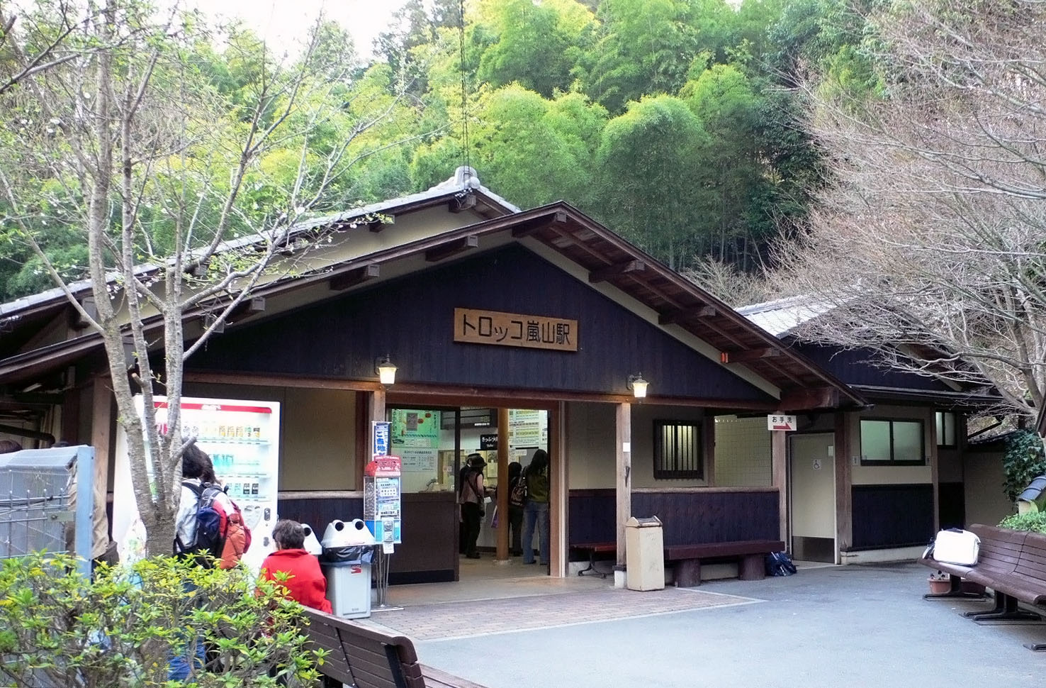 Truck-Arashiyama-Station (トロッコ嵐山駅)